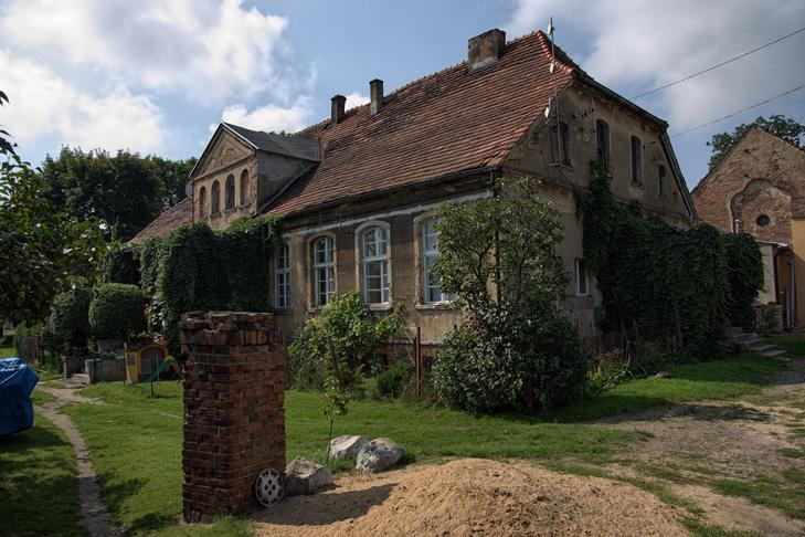 Cerekwica dwór Baarthów